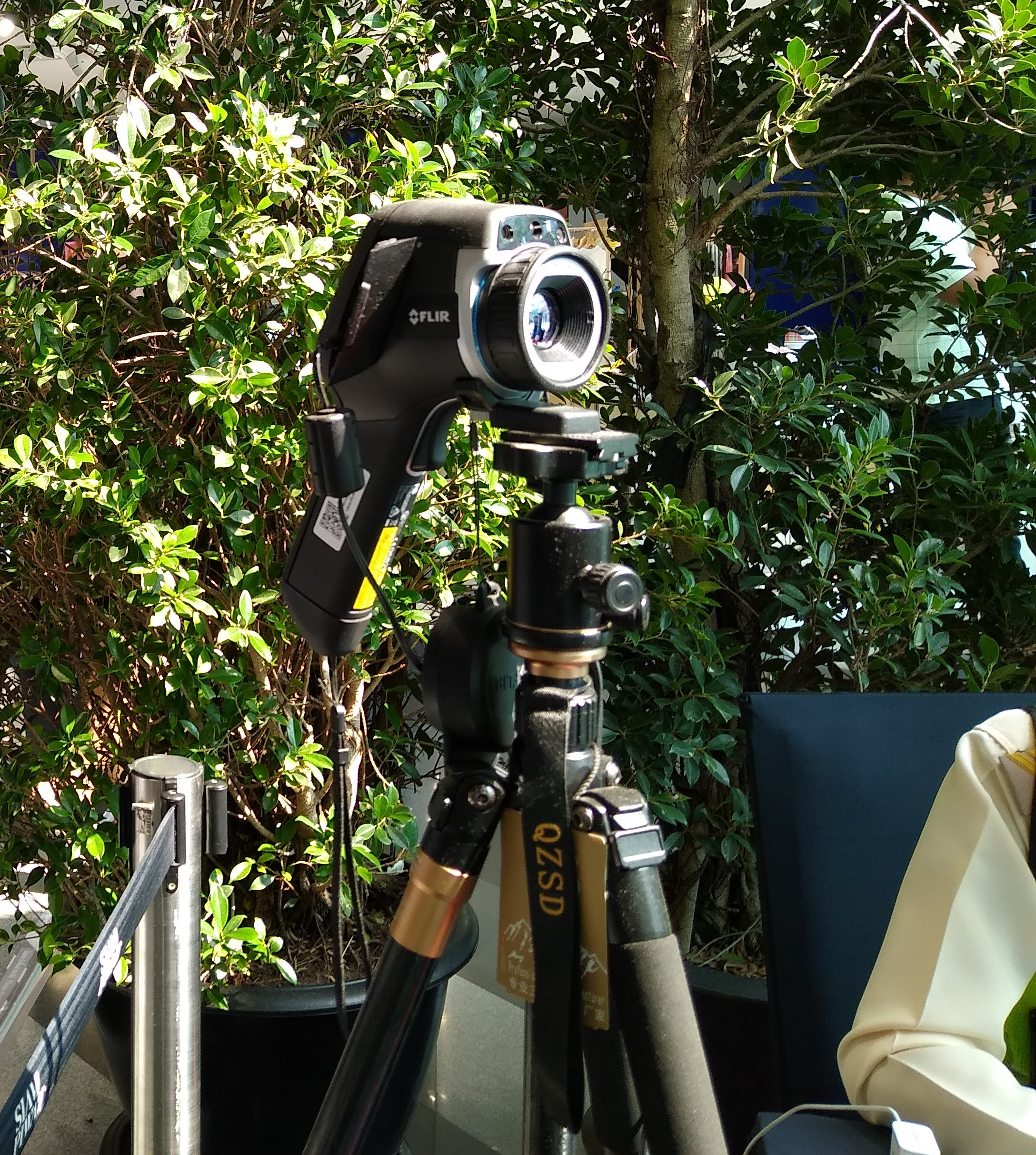 A device checking visitors' temperatures at a "body temperature screening point" just inside an entrance to Siam Discovery mall in Bangkok, amid the COVID-19 outbreak.